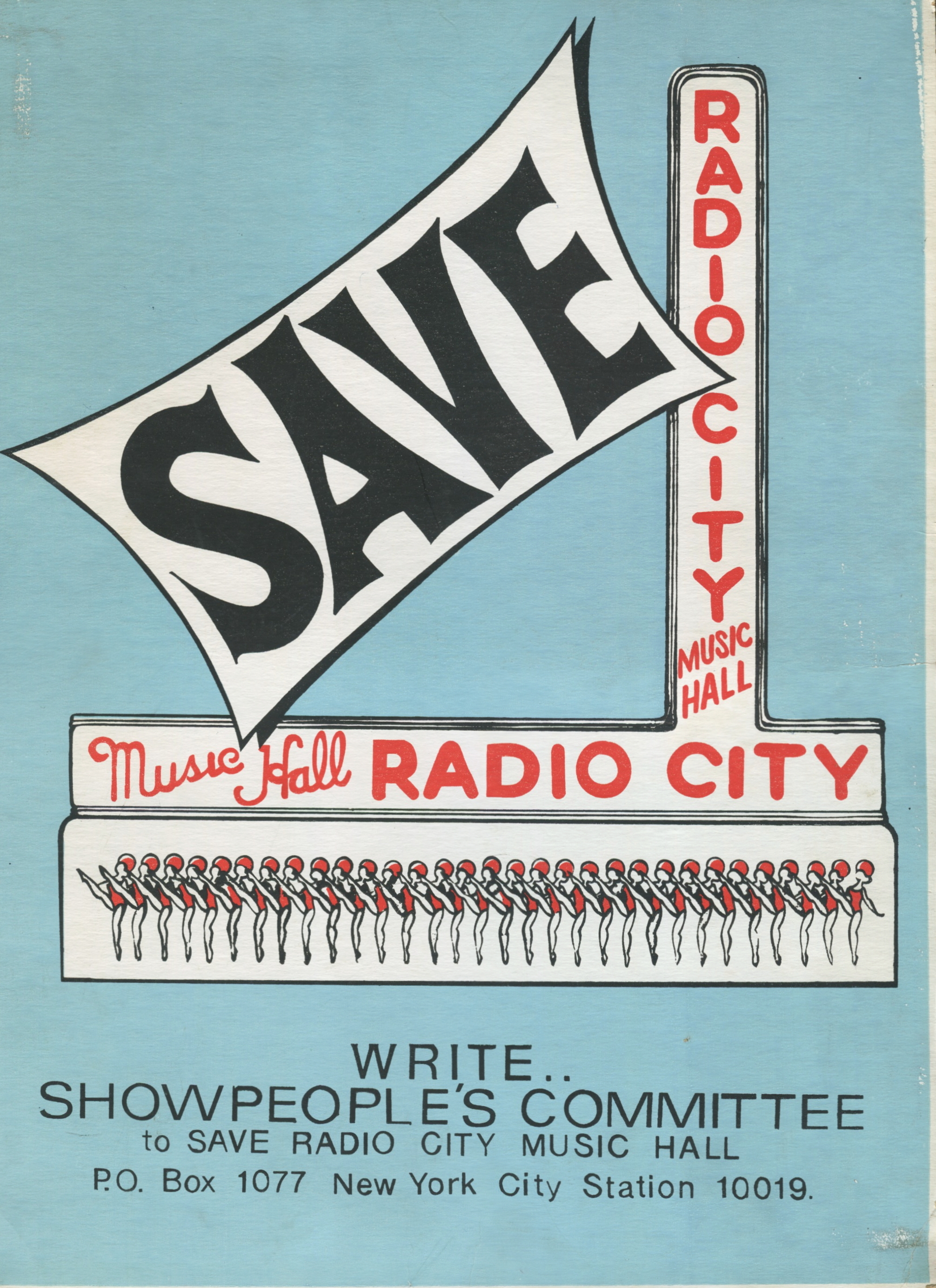 Poster used to encourage a letter writing campaign to support the committee's effort to Save Radio City Music Hall from demolition